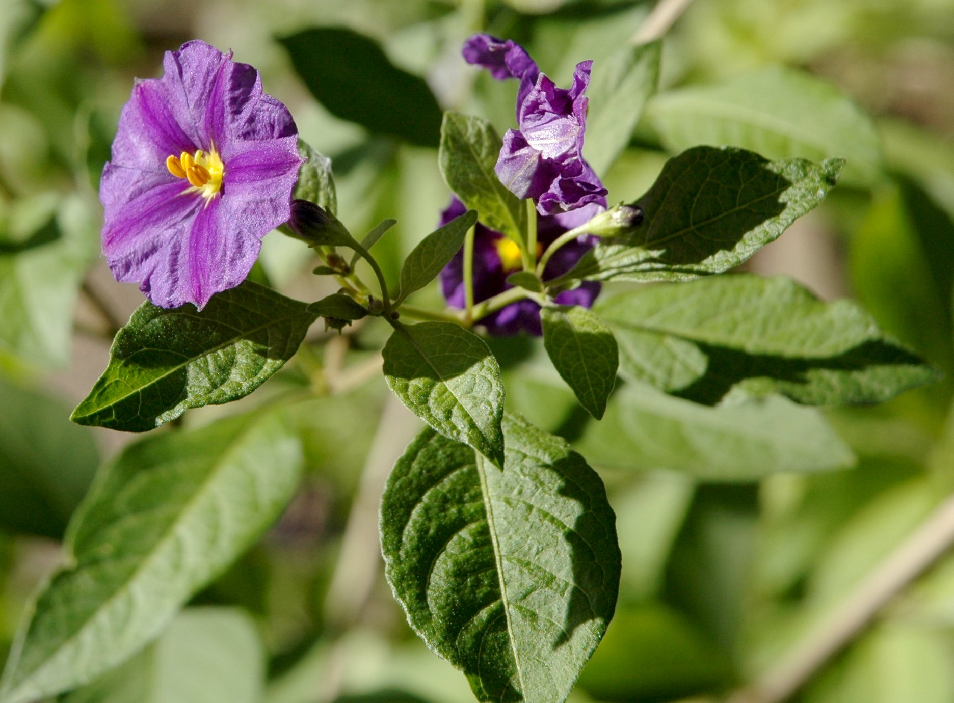 Flowers of Lycianthes rantonnei at Jena Botanical Garden, Germany